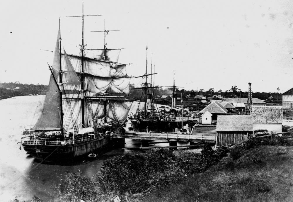 The barque Maria Ysasi, built 1871, in Maryborough (Qld.).